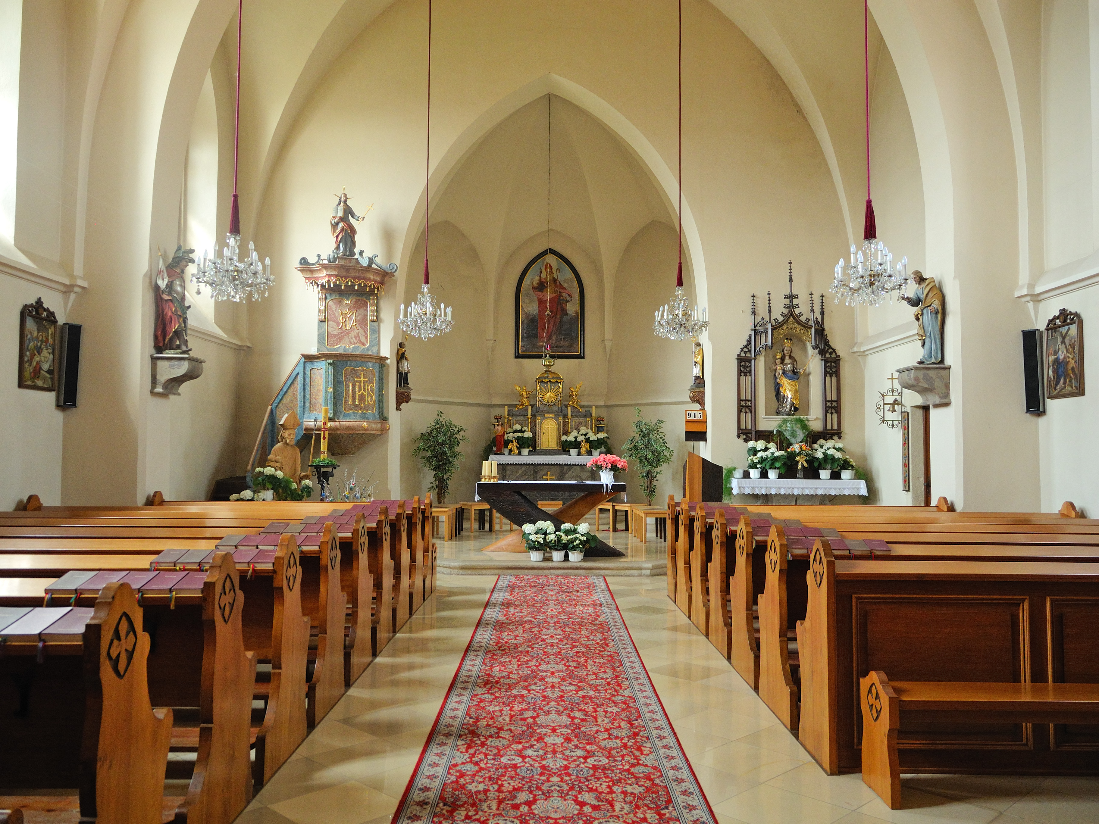 Indoor of the catholic parish church of Au am Leithaberge, Lower Austria, Austria